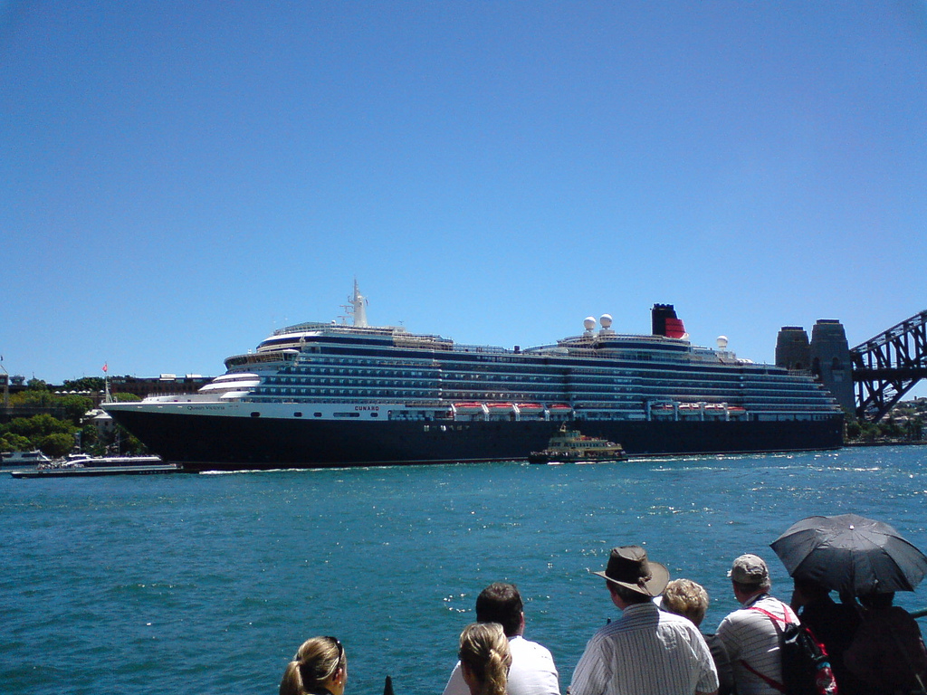 Queen Victoria at Circular Quay, Sydney